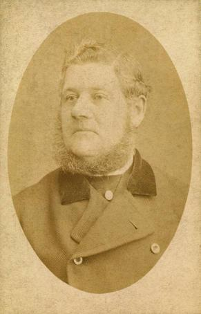 Edward Liddell (1826-1899), born in Coniscliffe, County Durham, England, He was chief constable of Newark.